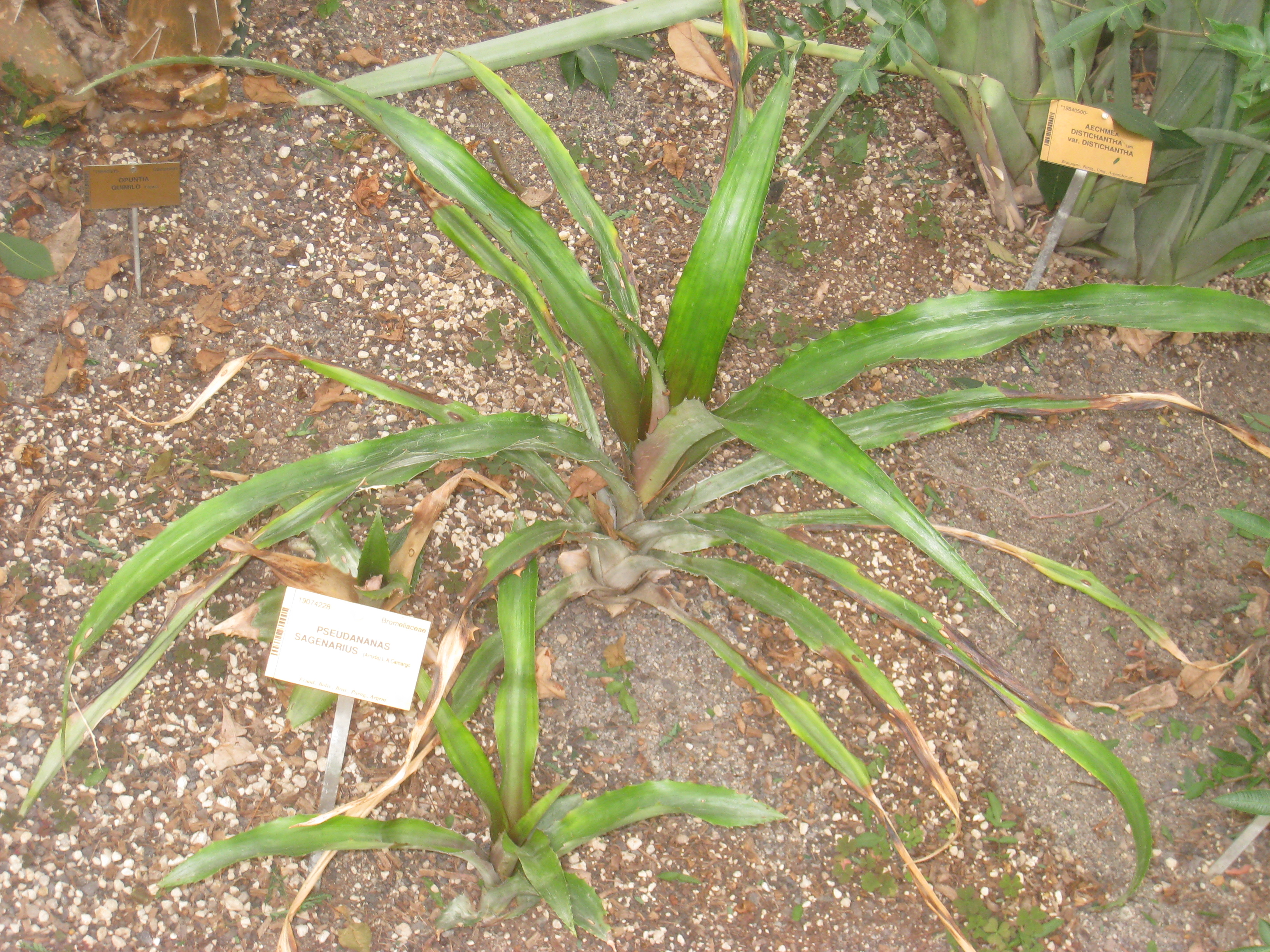 Pseudoananas sagenarius specimen in the National Botanic Garden of Belgium, Meise, just north of Brussels, Belgium.